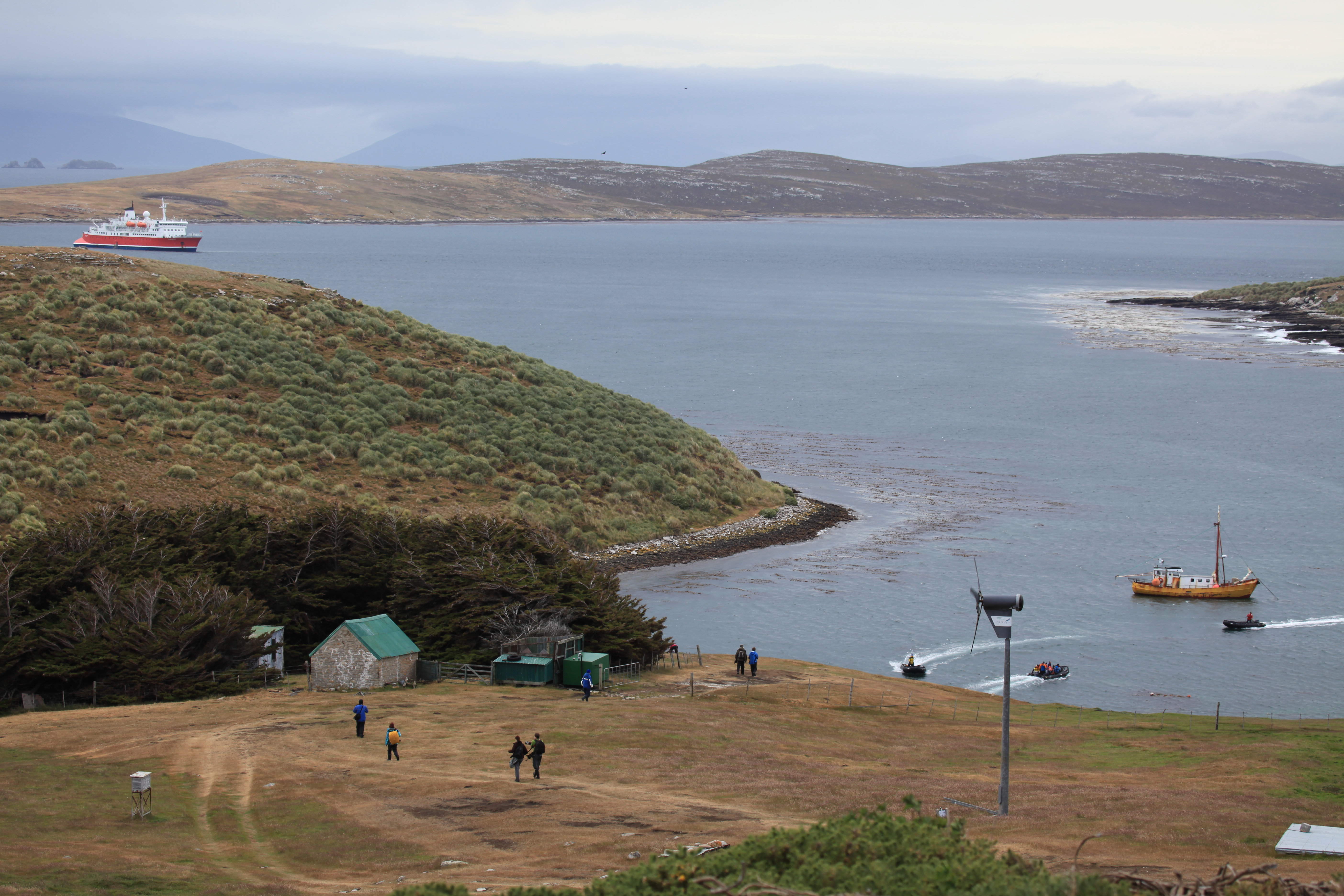 West Point Island is one of the Falkland Islands, lying west of West Falkland. It has an area of 1,255 hectares (4.85 sq mi) and is run as a sheep farm.